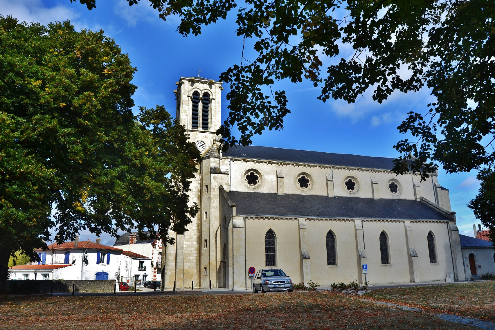 Ste Marie-Madeleine